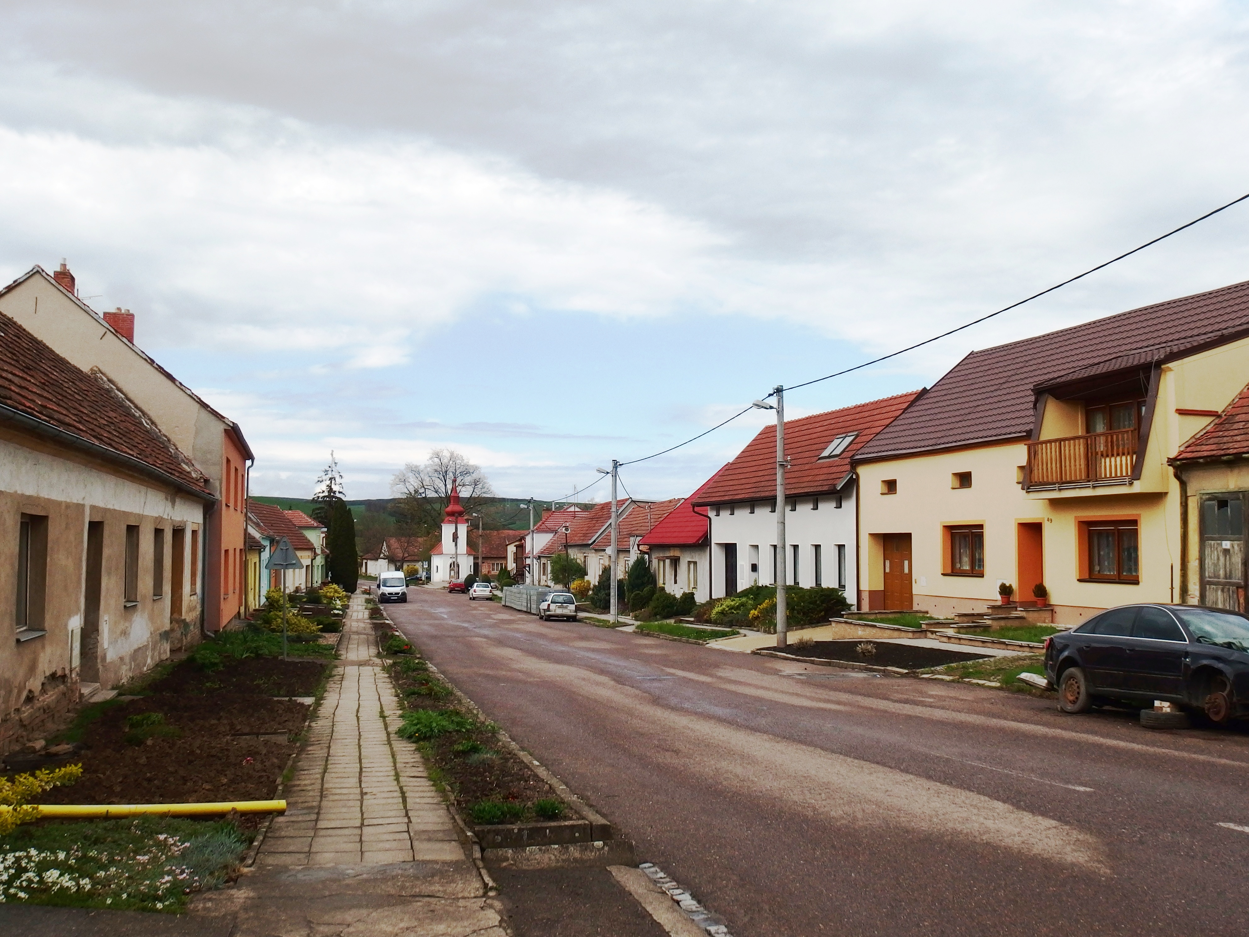 Klobouky u Brna, Břeclav District, Czech Republic, part Bohumilice.